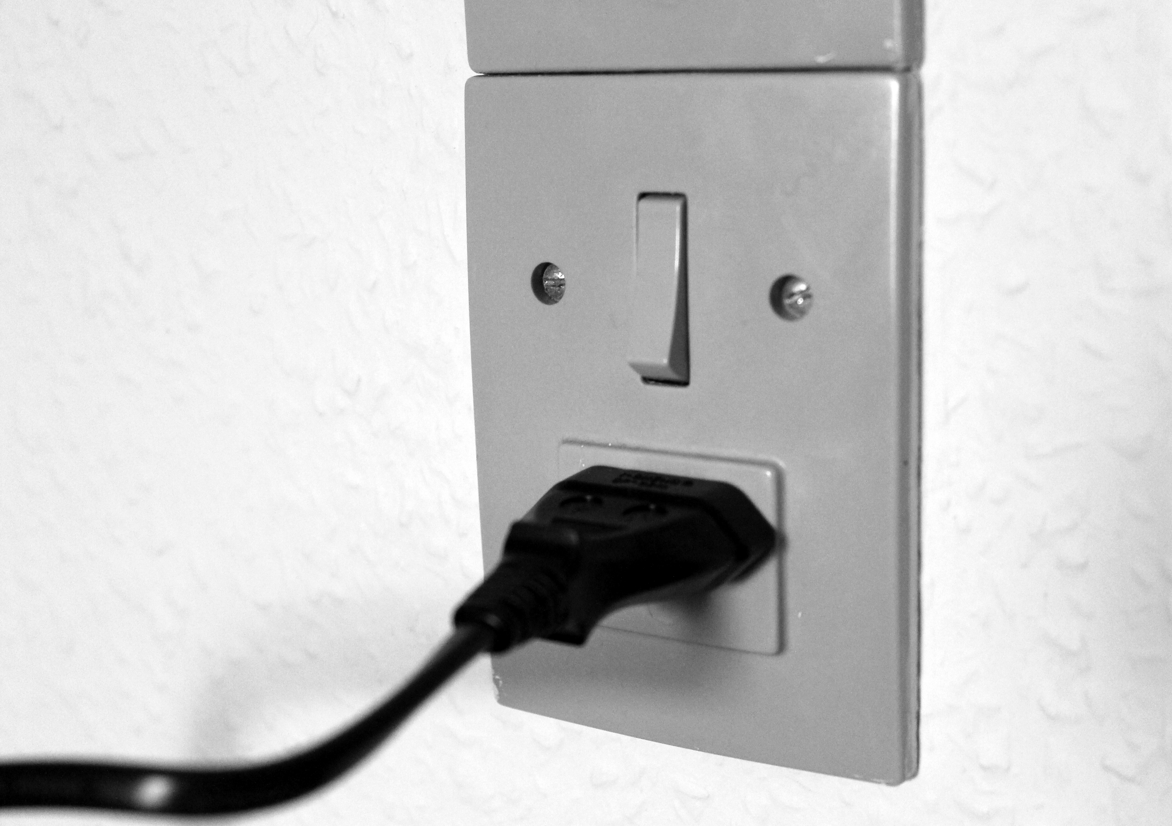 Danish mains socket with a switch